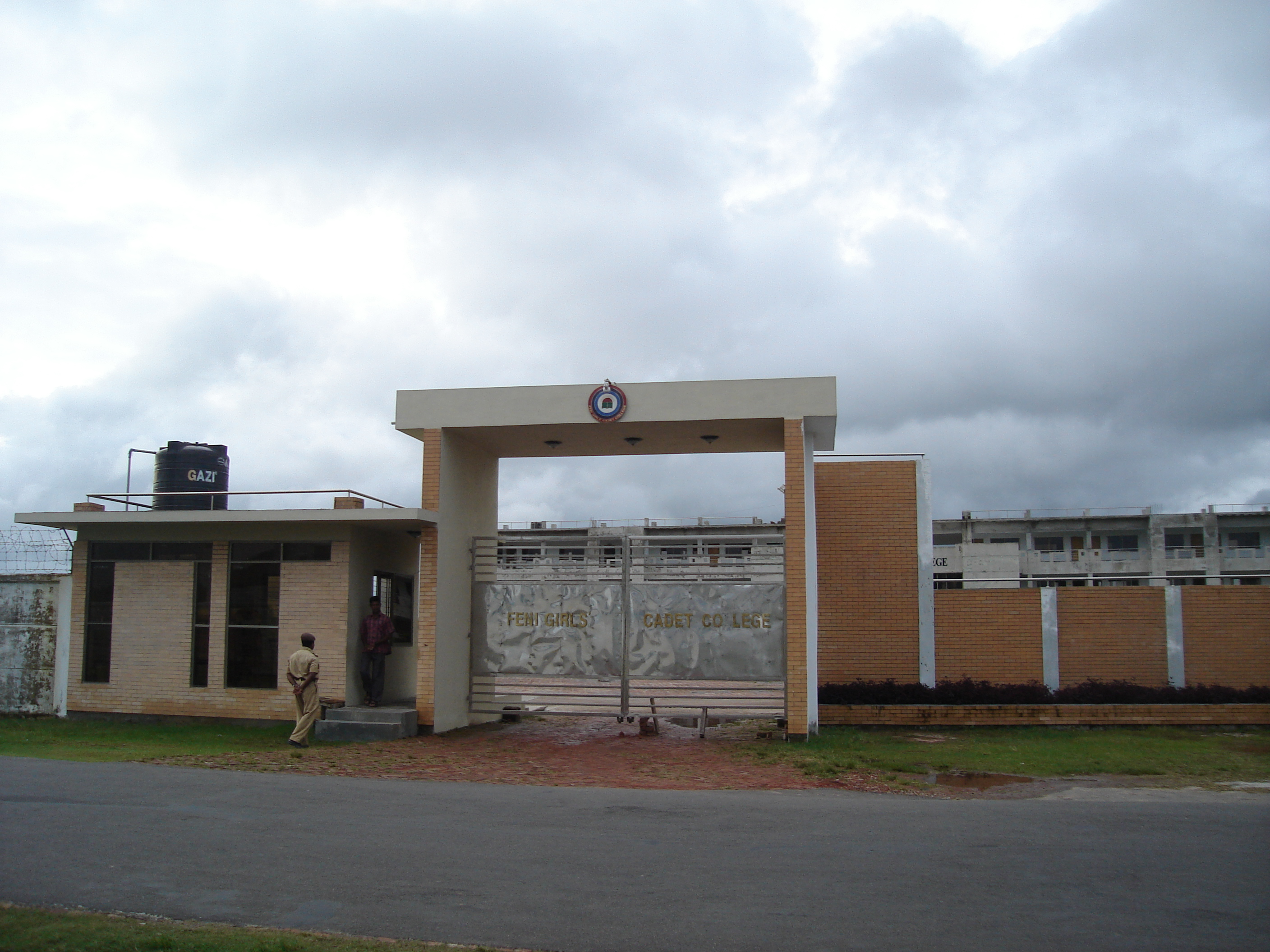 Main gate, Feni Girls Cadet College, Feni District, Bangladesh